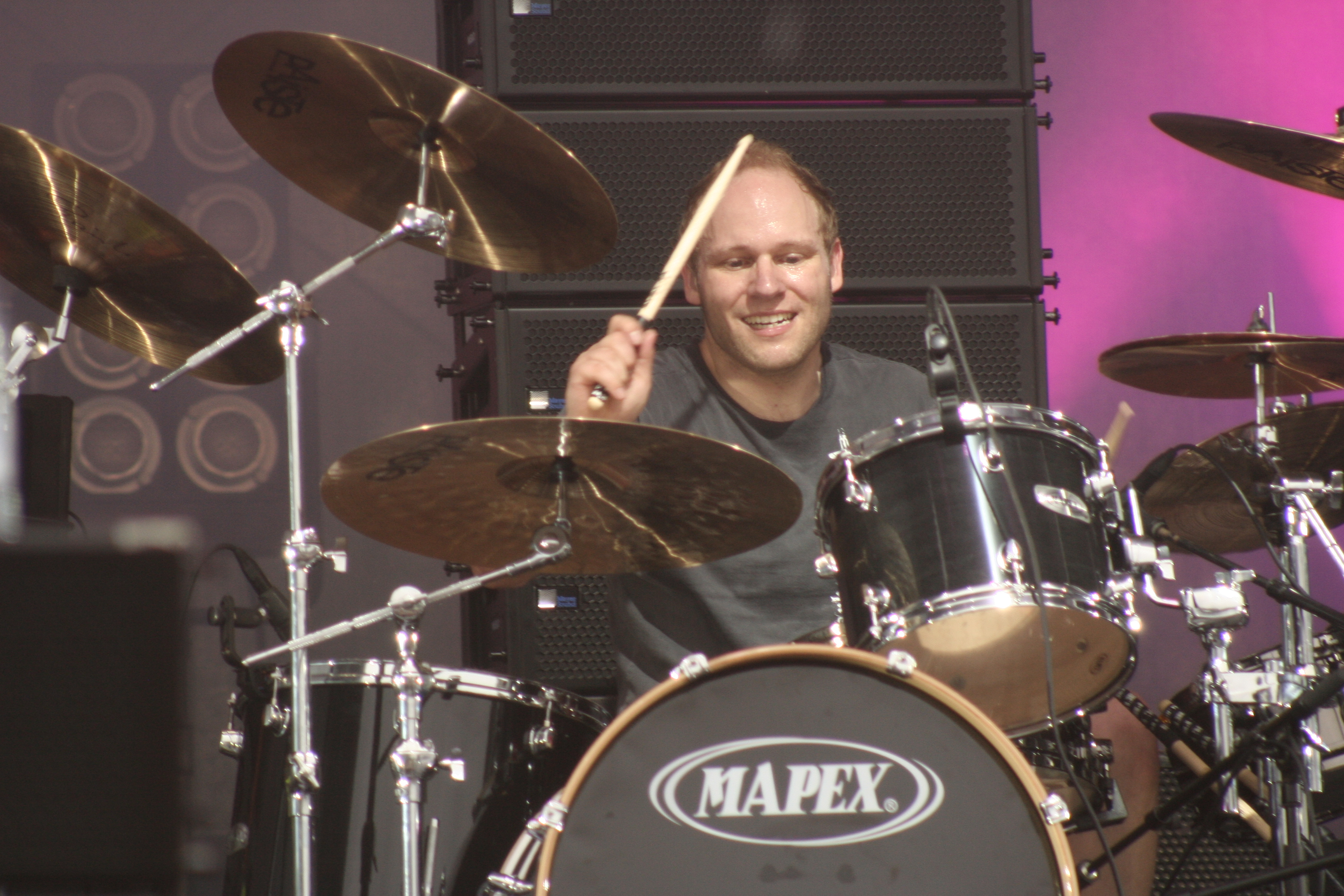 Drummer/percussionist Jason Bowld of Pitchshifter performing live in Rabarock 2008.